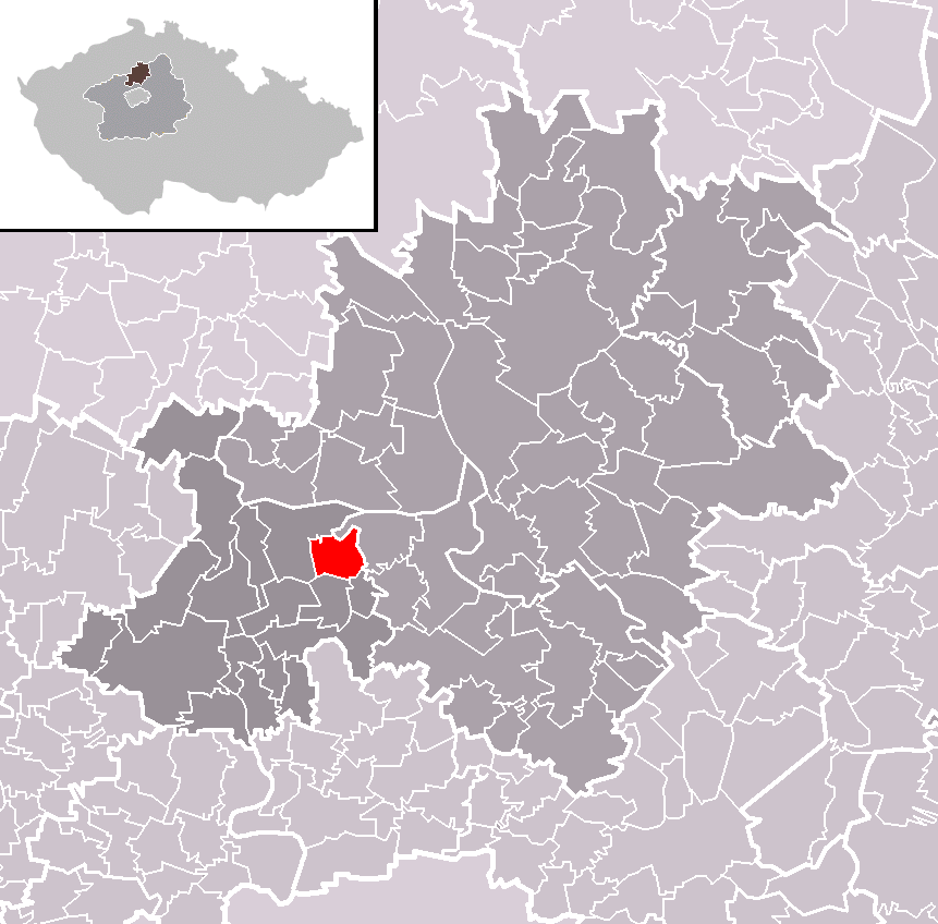 Location of Hostín u Vojkovic municipality within Mělník District and administrative area of Kralupy nad Vltavou as a Municipality with Extended Competence.